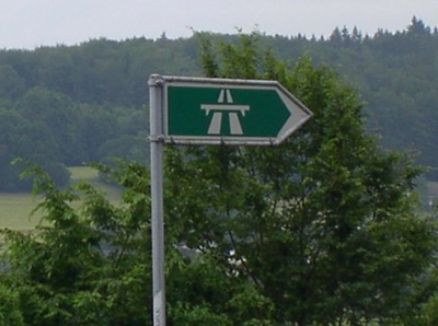 Swiss Autobahn Sign. DF08 2003 image.